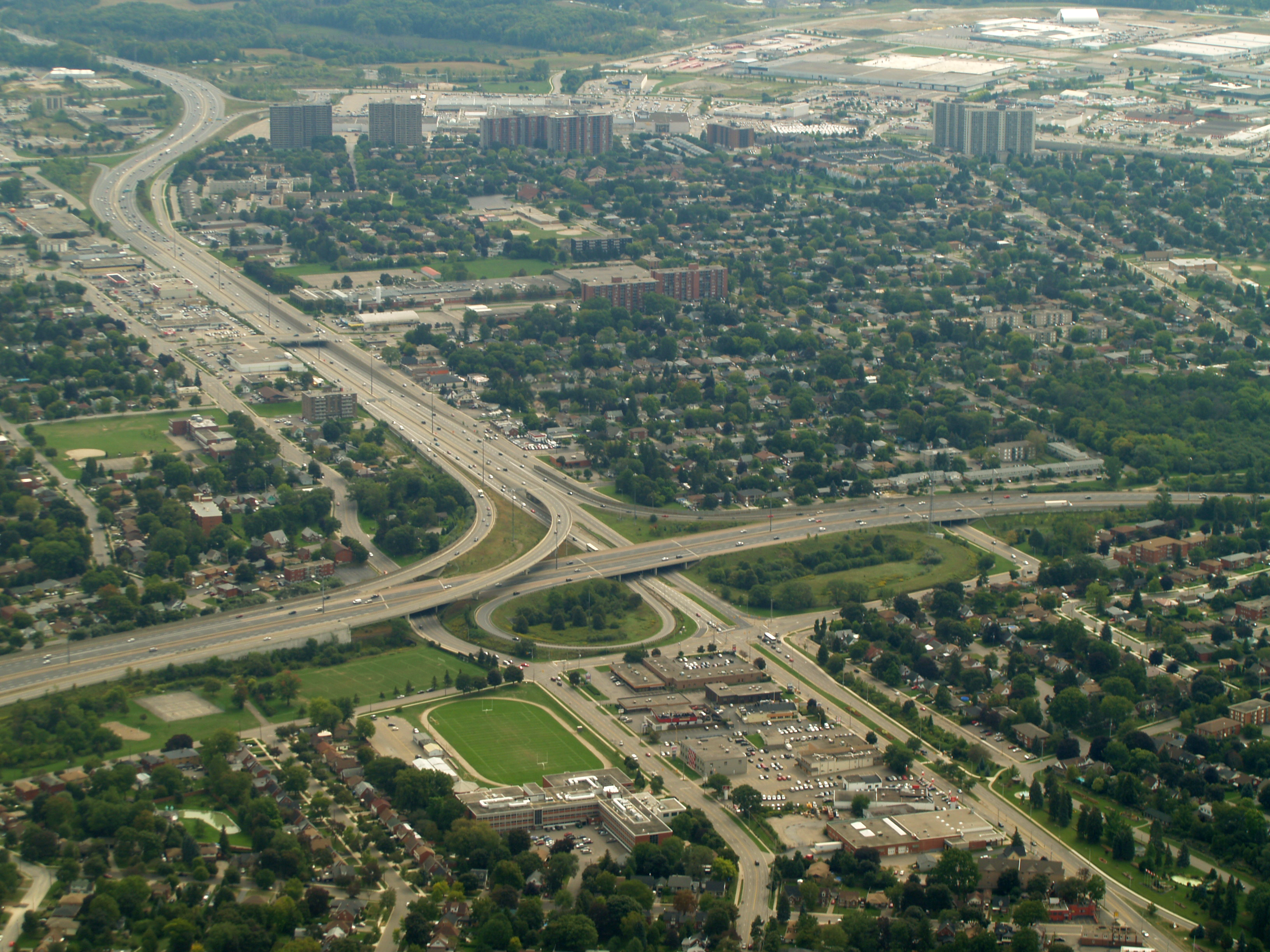 Conestoga and Freeport interchange Aerial in Kitchener, Ontario, Canada, looking south-southeast.